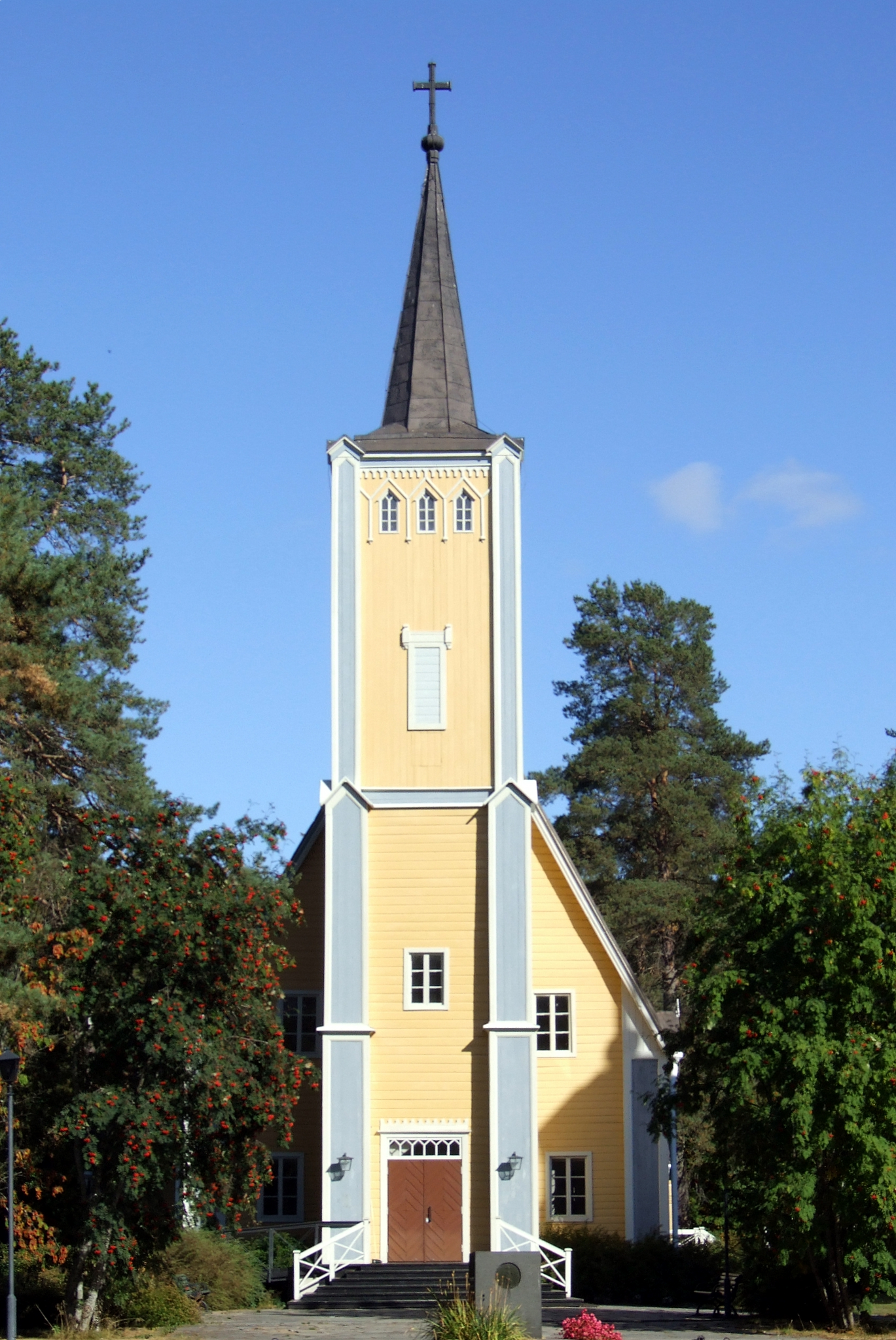 The church of Muhos is the oldest wooden church still in use (with original design well-preserved) in Finland. It was completed in 1634.